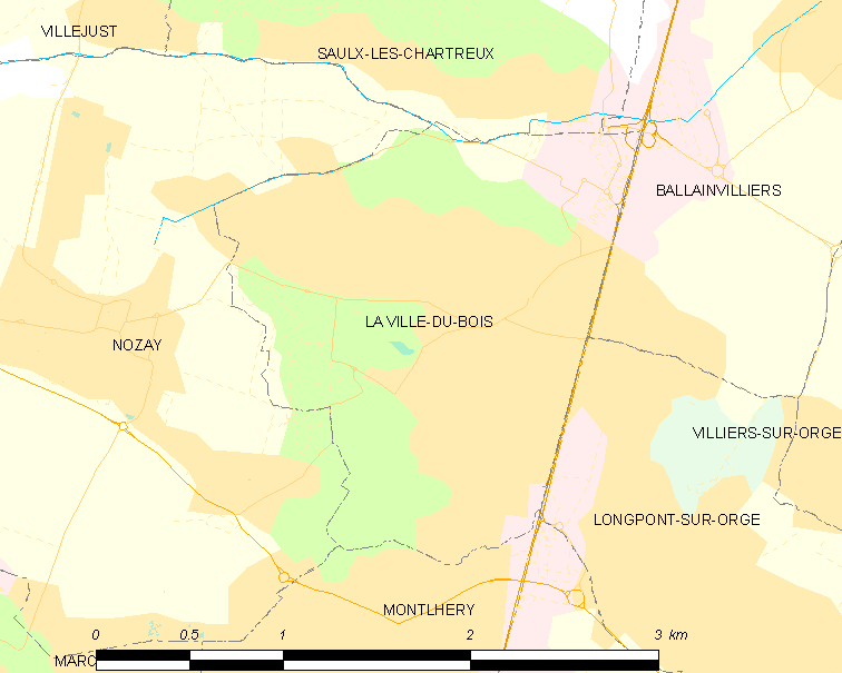 Map of French municipality La Ville-du-Bois